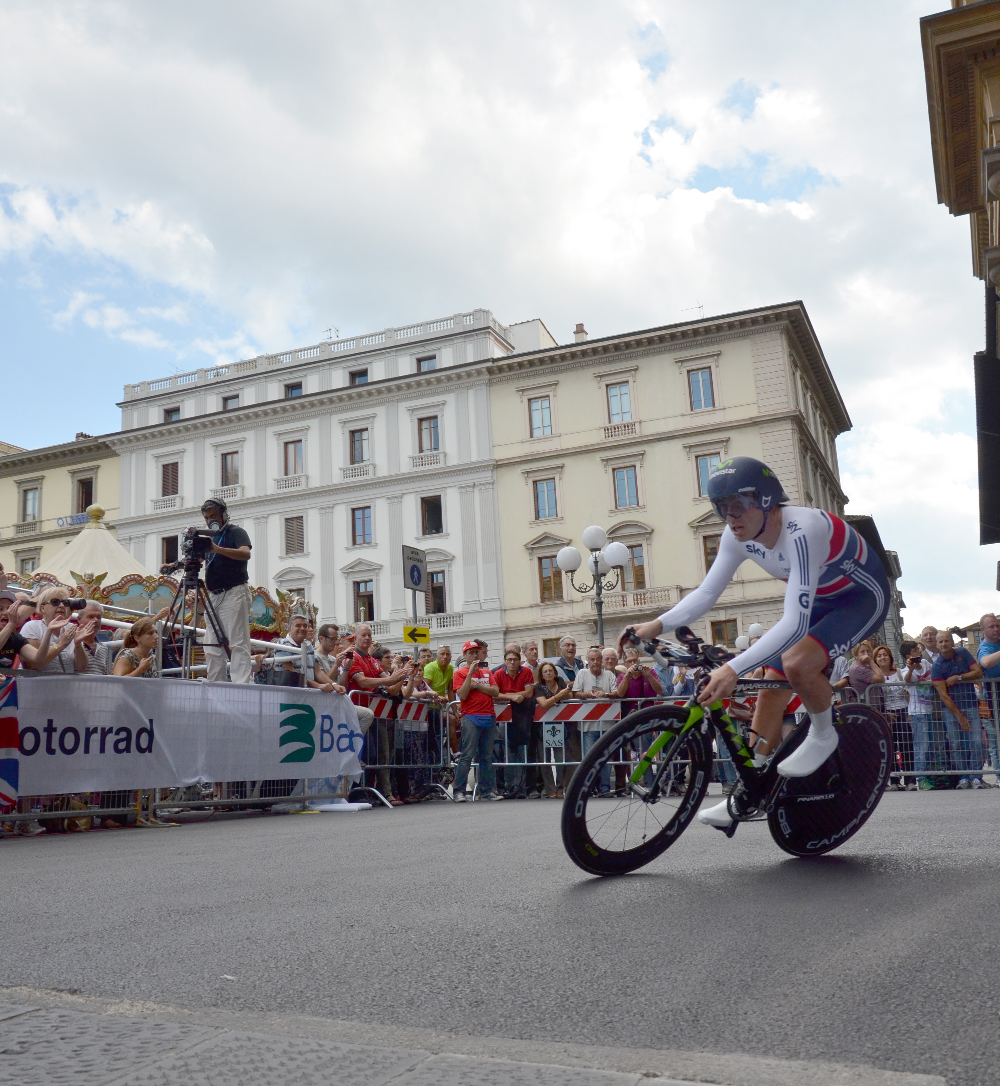 Dowsett alex Uci Road World Championships Toscana Italy 2013 Florence